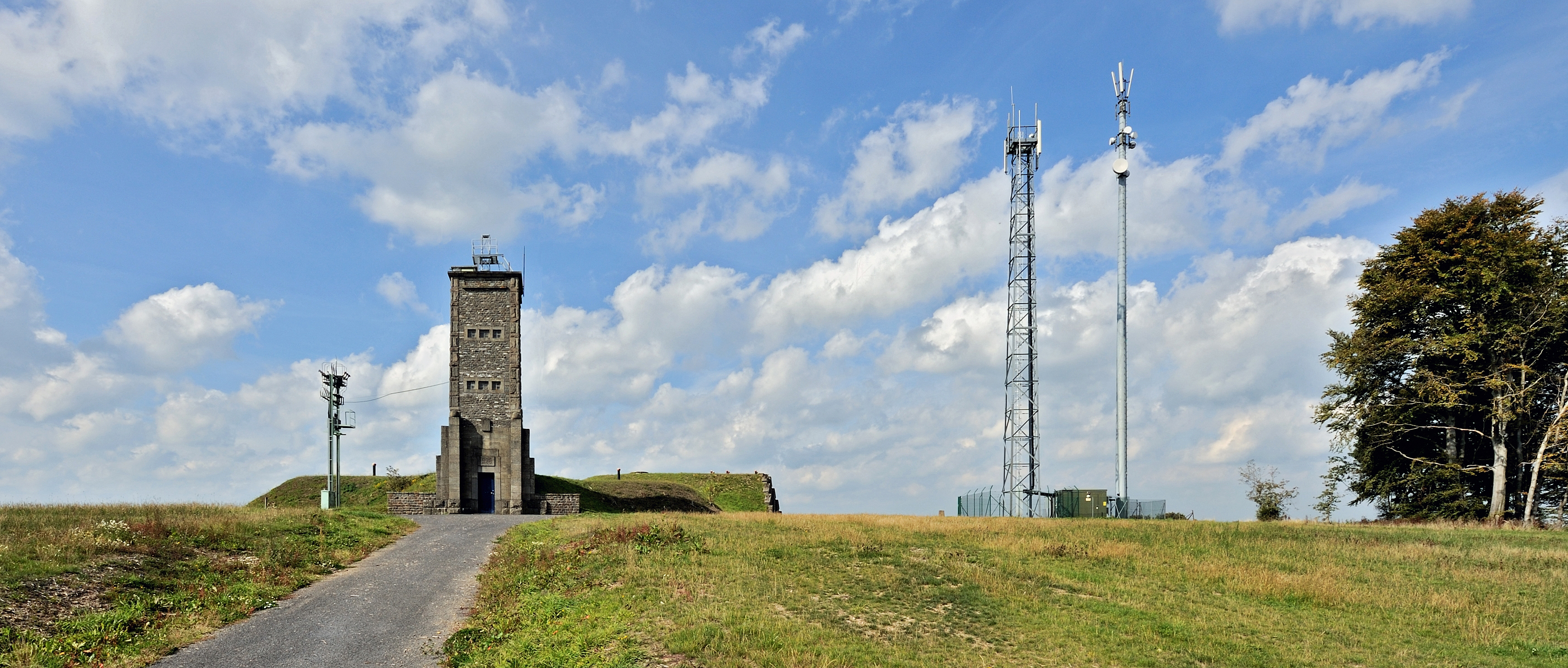 Luxembourg, commune of Rambrouch: Jardin Napoléon.